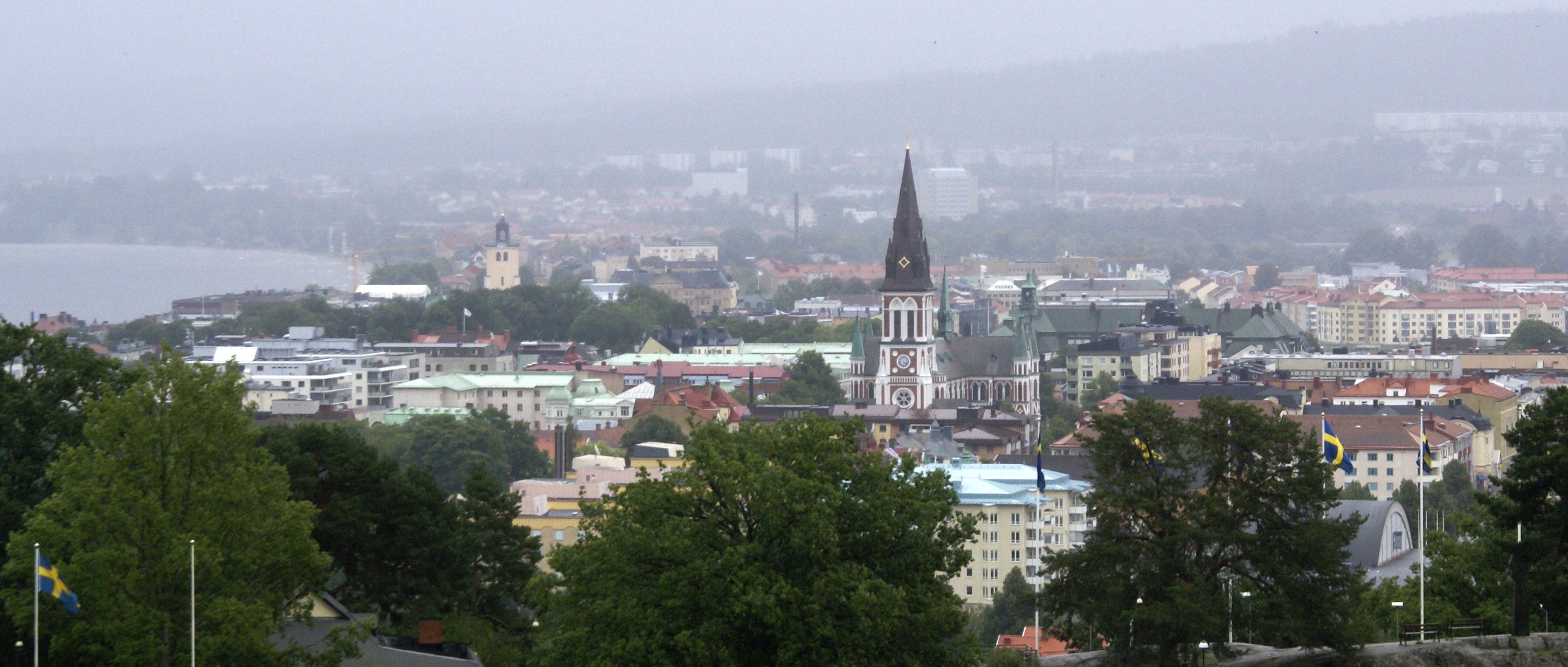 Jönköping